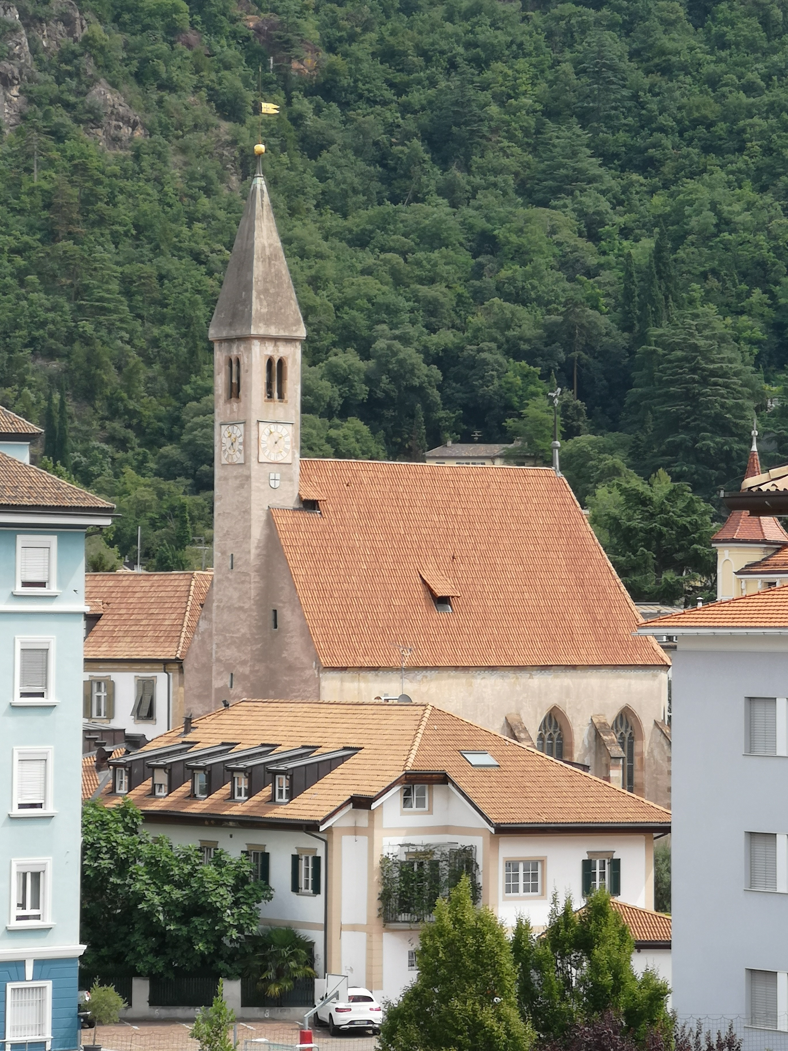 The St Georg in Weggenstein chapel in Bozen from southwest